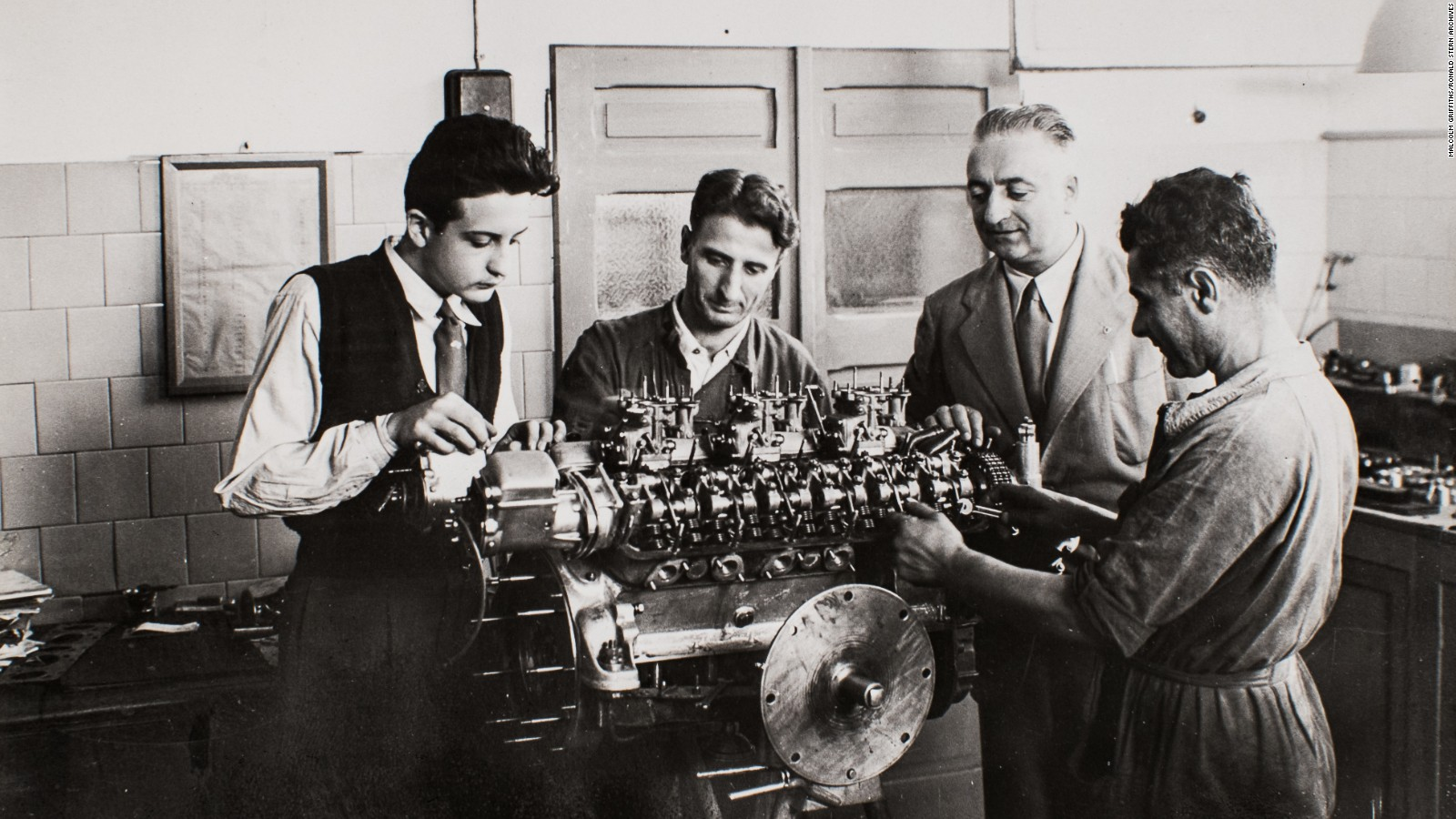 Enzo Ferrari and engineers (his son Alfredo to the left), perhaps with the new 1,5 litre V12 Colombo engine for the 1947 Ferrari 125 S s/n 01C. Estimate date to early 1947.